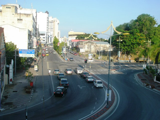 Taken by Adiput